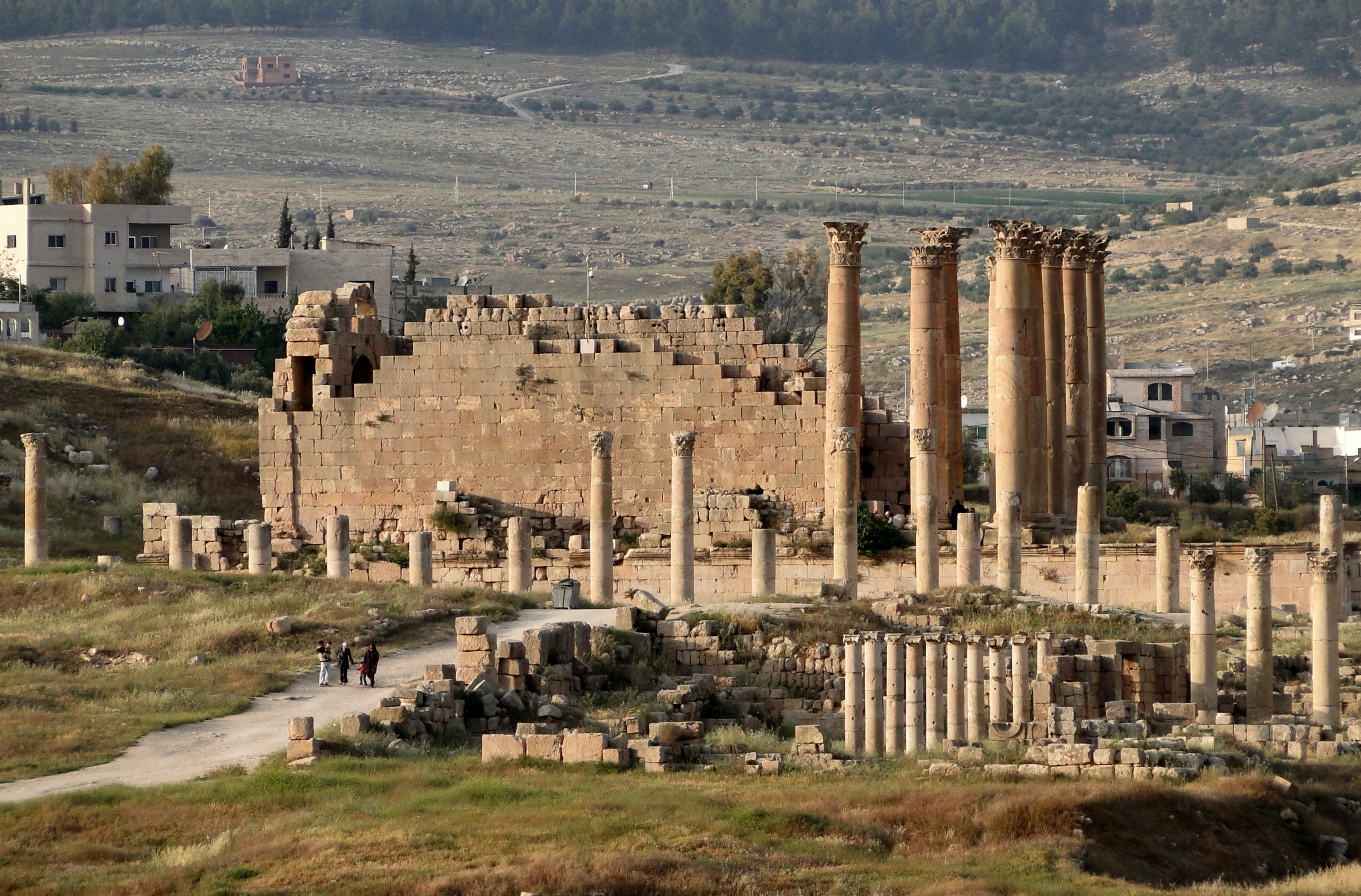 South facade of the Temple of Artemis seen from the South Theatre in Jerash, Jordan